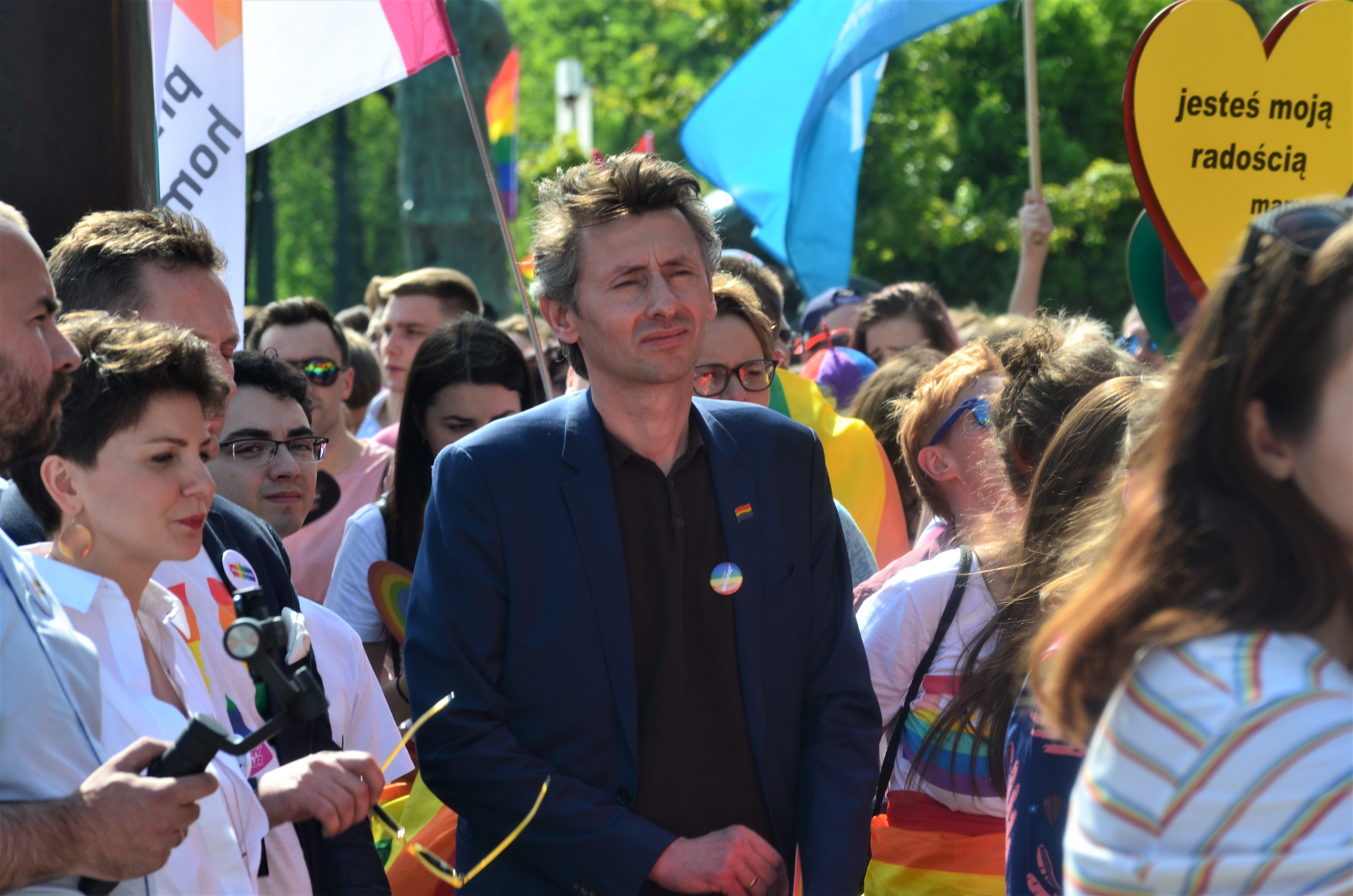 Equality March 2019 in Kraków